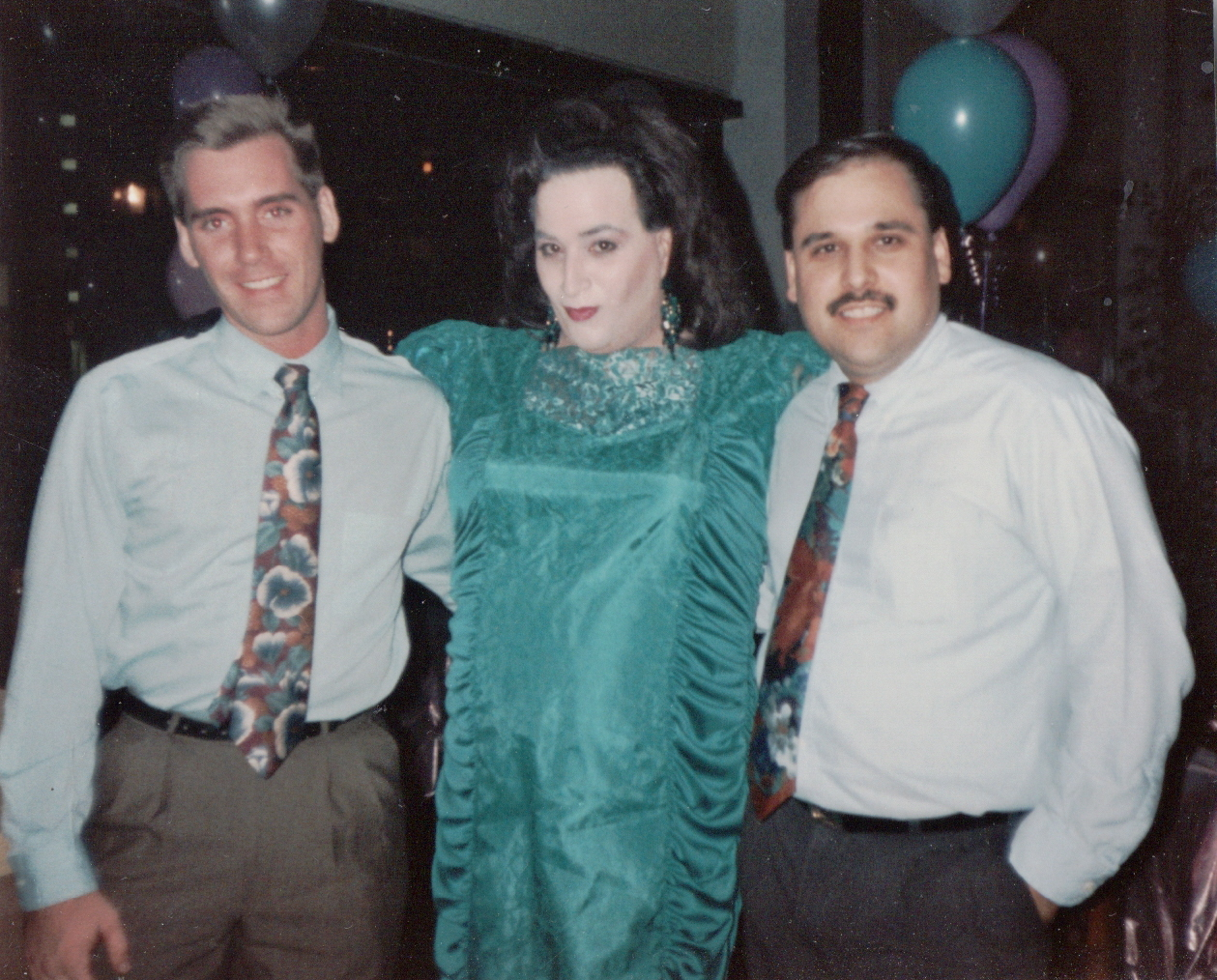 picture was taken in 1992 and shows the two men with performer Rita Randella at the IYg Prom that year, Chris is on the right and Jeff is one the left